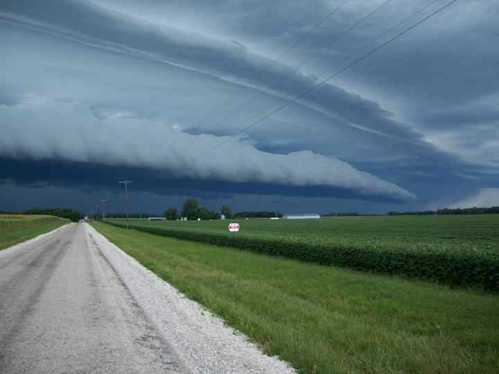 Shelf cloud ahead of a squall line